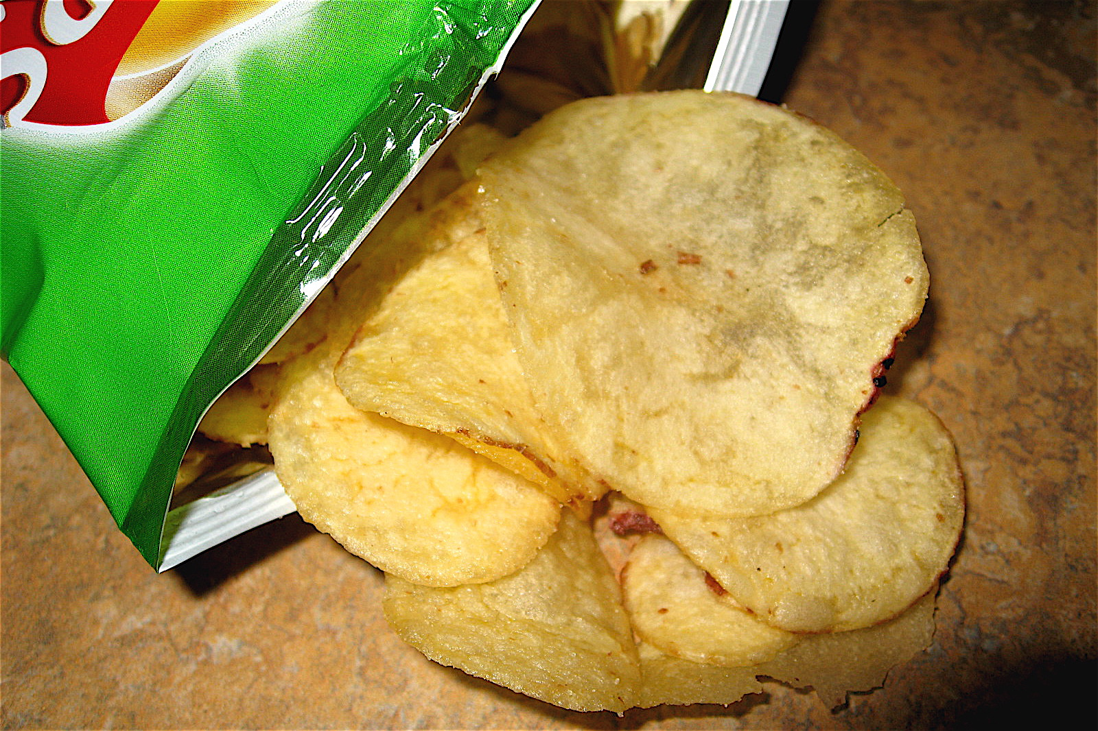 A pack of Walkers Salt & Vinegar potato crisps.